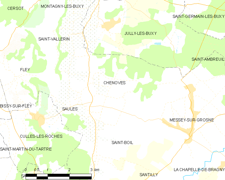 Map of French municipality